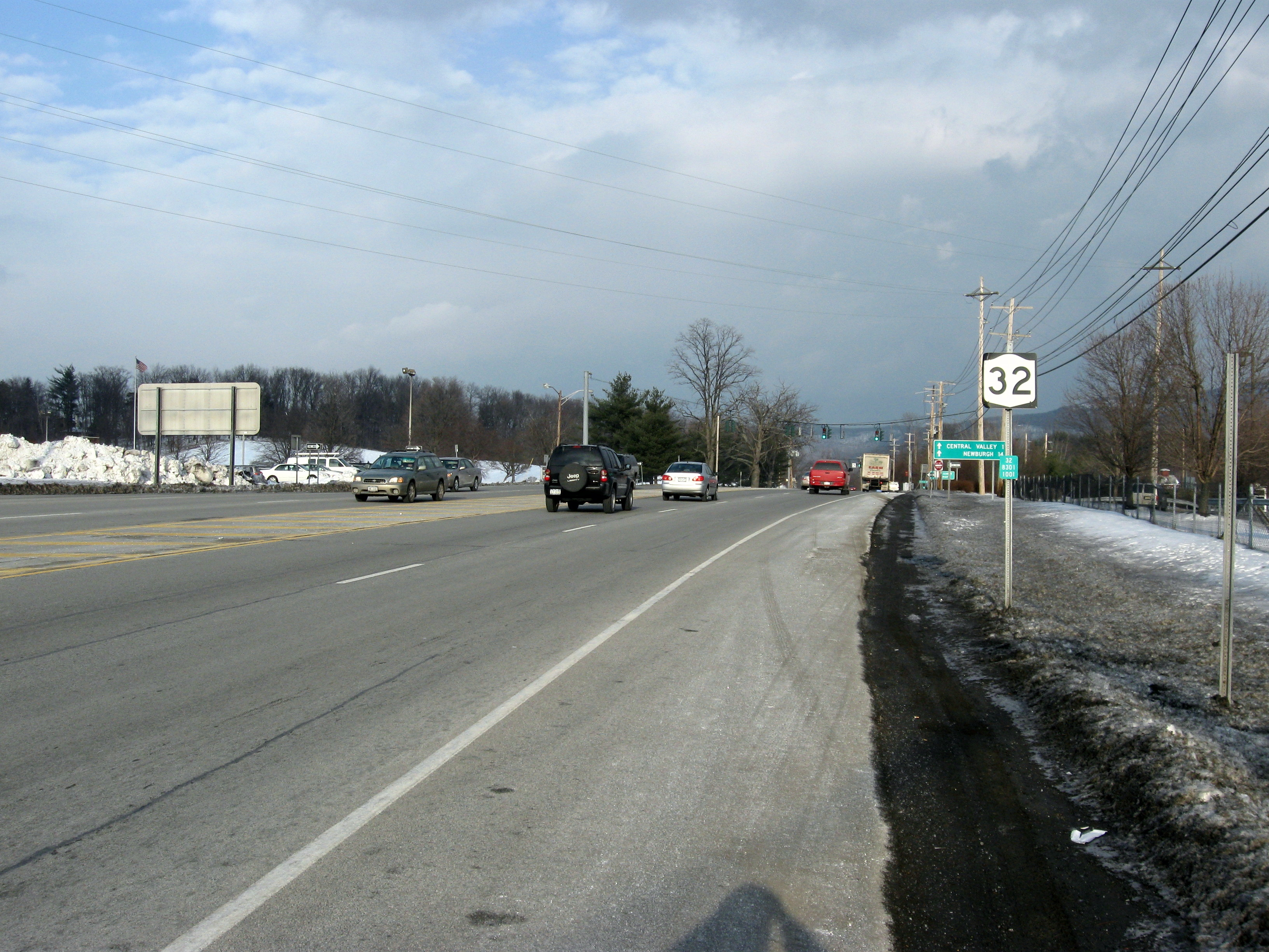 The first reassurance sign of New York State Route 32 at the southern beginning in Woodbury, New York.